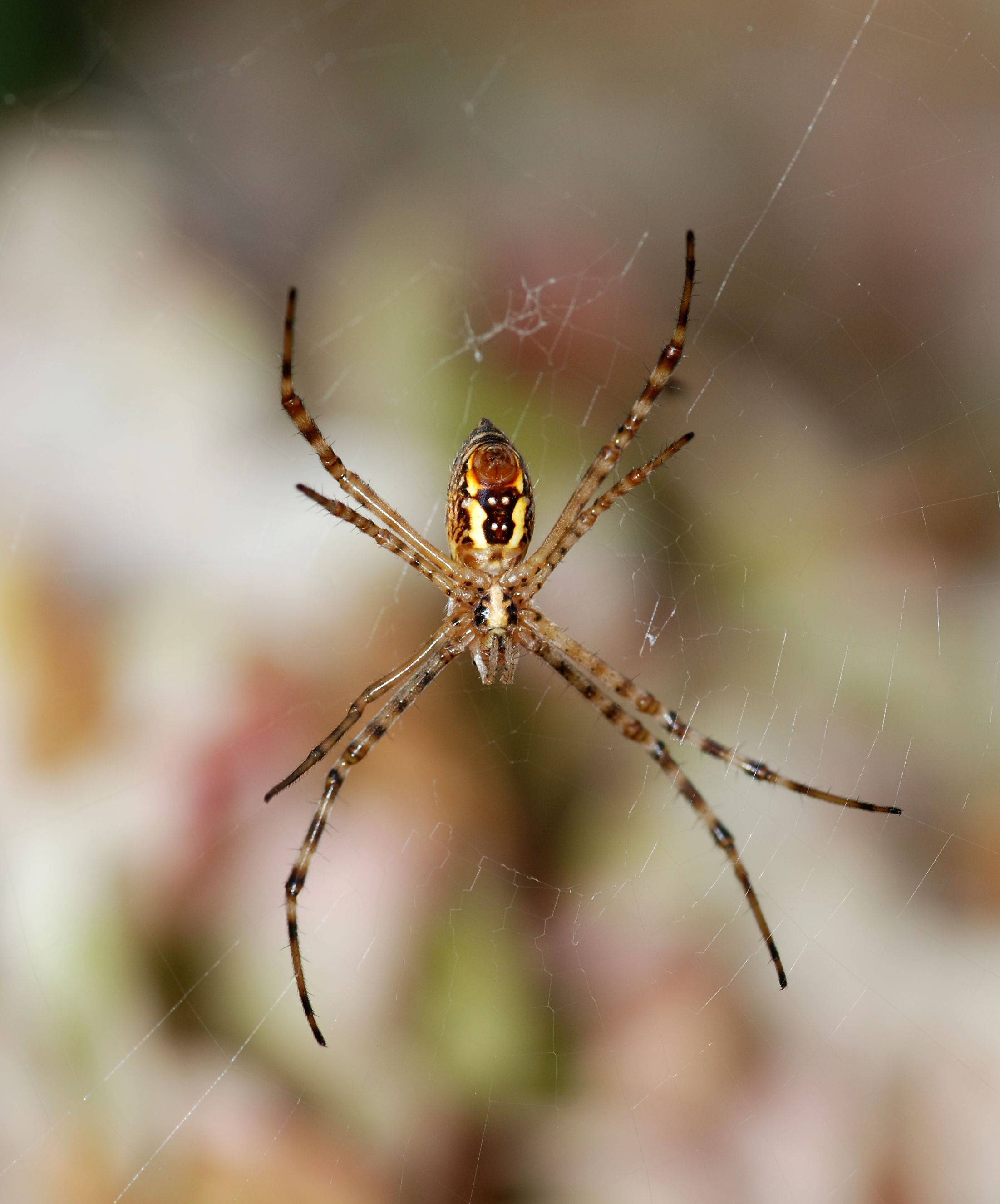 Banded garden spider (Argiope trifasciata), ventral view